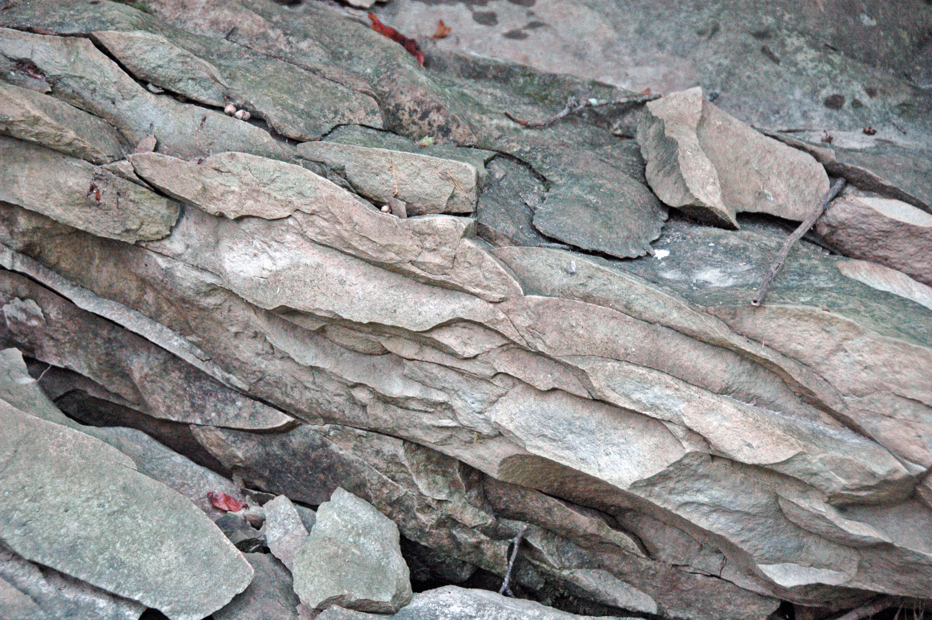 Limestones in the Mississippian of Ohio, USA. The Maxville Limestone is the only Middle to Late Mississippian-aged stratigraphic unit in Ohio. Its outcrop belt is not extensive - it principally occurs in Muskingum County and Perry County in eastern and southeastern Ohio. The Maxville Formation can also be found as cobbles and pebbles in the basal Sharon Formation (Lower Pennsylvanian), which disconformably overlies Ohio's Mississippian rocks. Paleohills, or erosional outliers, of Maxville Limestone have also been identified. The limestone rubble shown is eroded from a natural streamcut in Muskingum County, Ohio that has thick- and thin-bedded Maxville Limestone. The rocks here are principally micritic limestones that are sparsely fossiliferous (decent fossil-bearing horizons do occur in the upper Maxville Limestone). A few productid brachiopods were observed at this site. Stratigraphy: Maxville Limestone, Meramecian Series to Chesterian Series, Middle to Upper Mississippian Locality: outcrop on the southern side of Jonathan Run, a little upstream from Workman Road bridge, north-northwest of the town of Fultonham, southwestern Muskingum County, eastern Ohio, USA